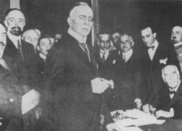 Treaty of Rapallo